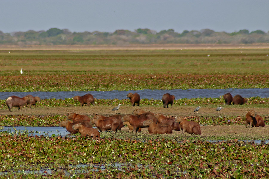 A group of capybaras at Hato La Fe, Guárico State, in Los Llanos region of Venezuela. Category:Images of rodents